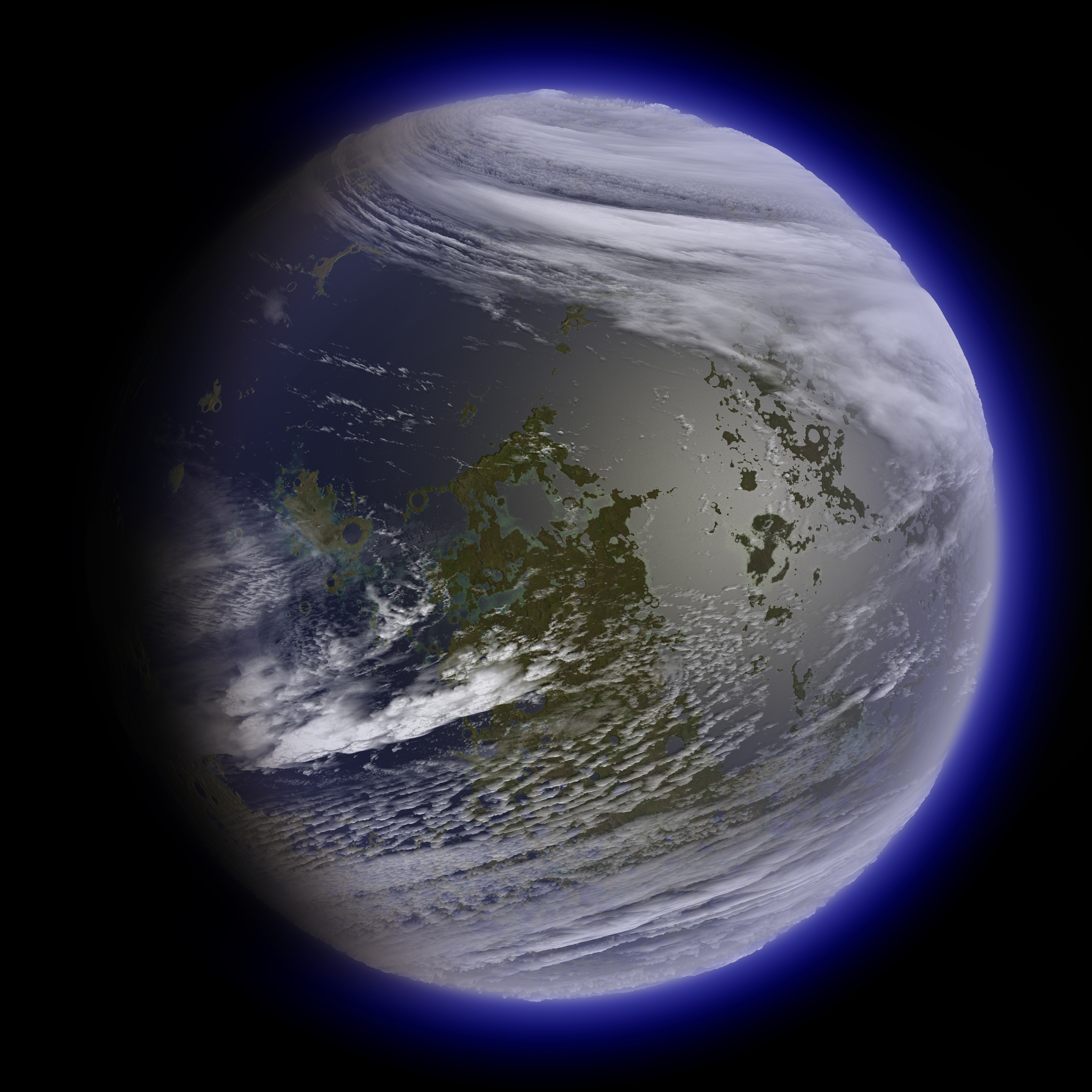 Artists impression of a terraformed Moon. Image is derived from LRO LOLA data. The water coverage is 50%. The weather is based on what we know of weather on Titan, the only small body with a thick atmosphere. Since it has a slow rotation the atmosphere may super rotate like Venus', but due to the small size there should be no polar collar, so no ice caps.